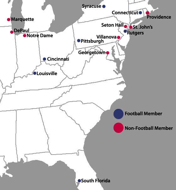 Updated with grey background & names written in black